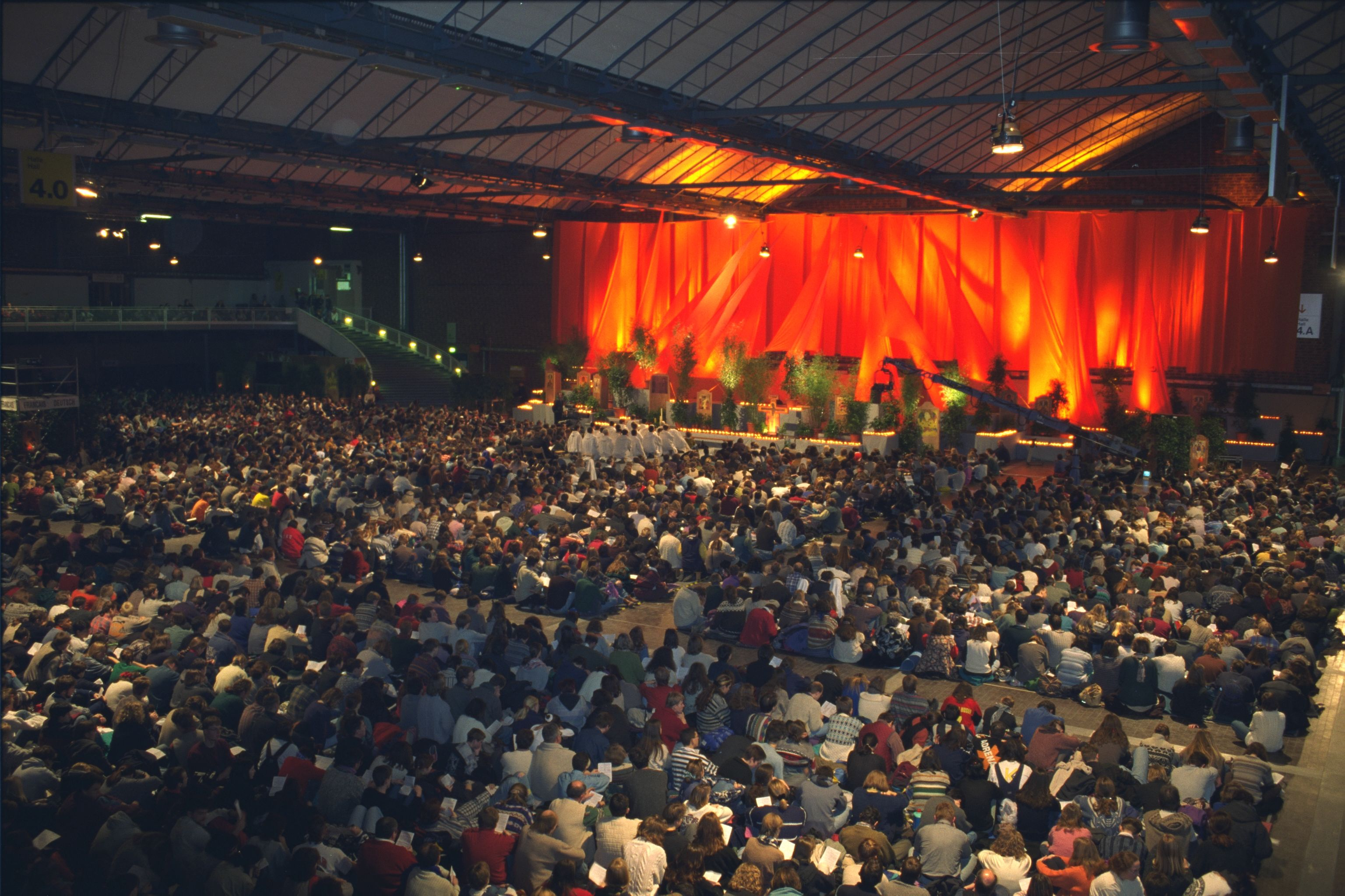 Prayer on the one of the Taizé European meetings (Stuttgart).